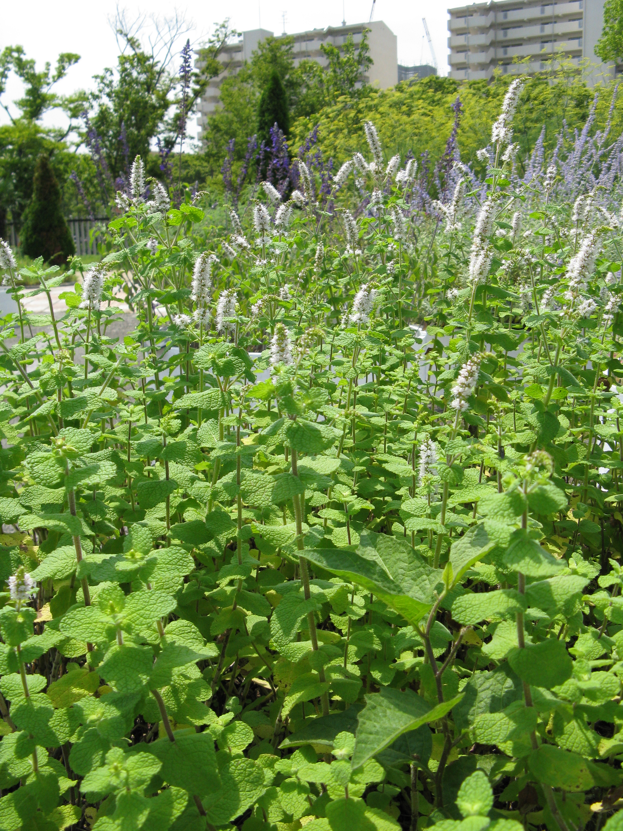 Scientific name Mentha suaveolens Place:Osaka,Japan